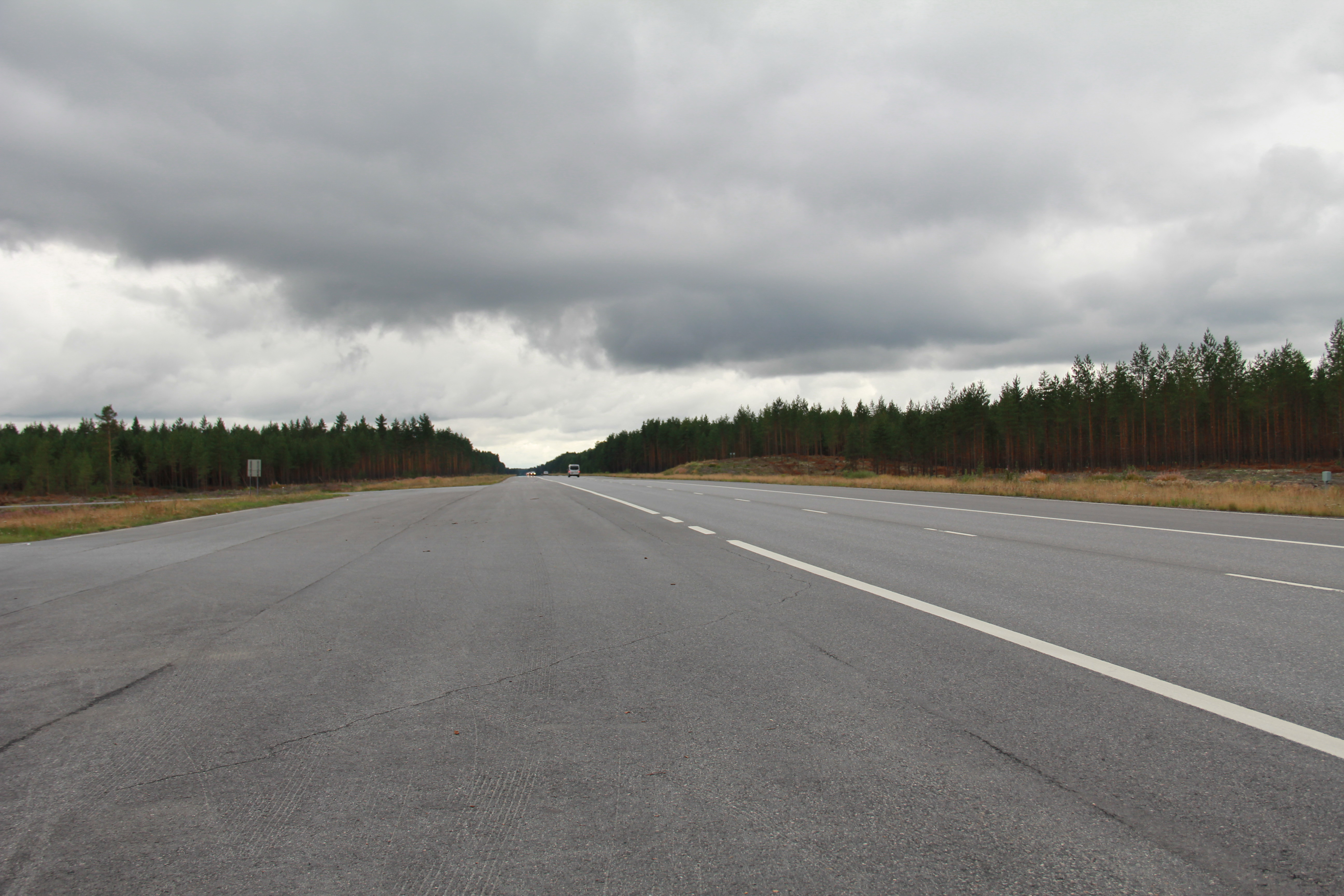 Virttaa highway strip in Virttaa, Loimaa, Finland, on the National road 41 (Finland).